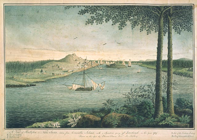 A View of Halifax in Nova Scotia, Taken from Cornwallis Island, with a Squadron Going off to Louisbourg, in the Year 1757